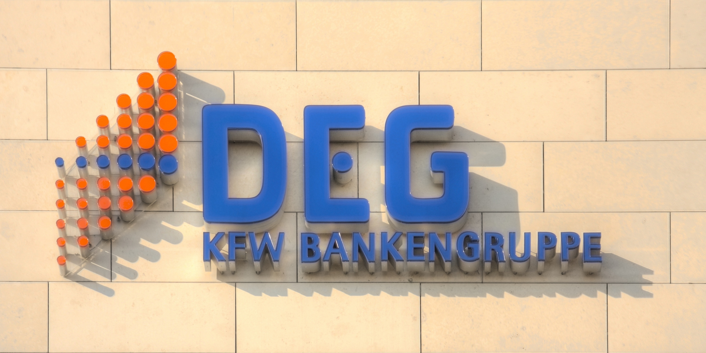 Logo on the headquarter of German Investment Corporation ("Deutsche Investitions- und Entwicklungsgesellschaft (DEG)), Cologne. View from Neuköllner Str.